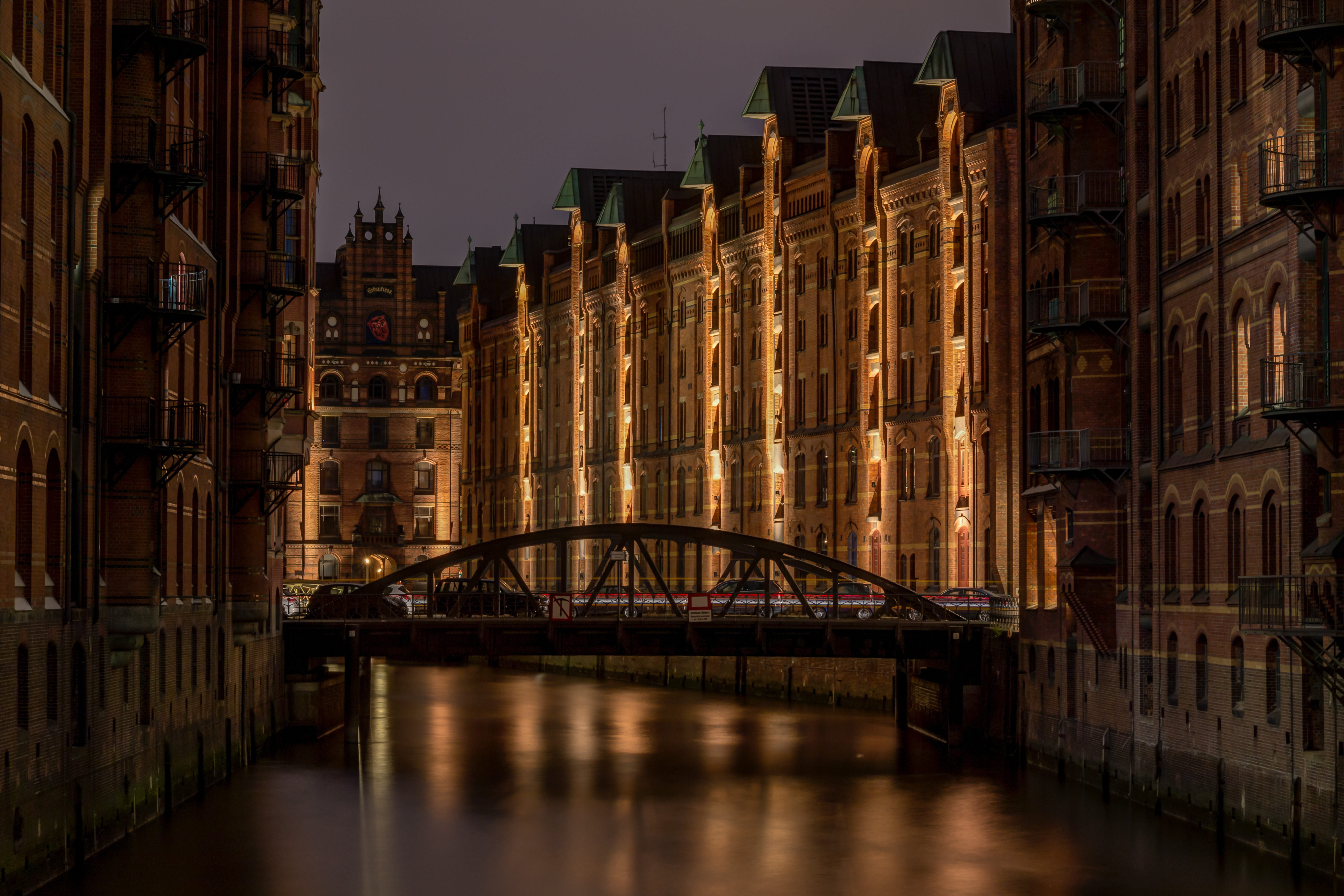 Block P (and Wandbereiterbrücke) in the Speicherstadt, Hamburg at night, Germany